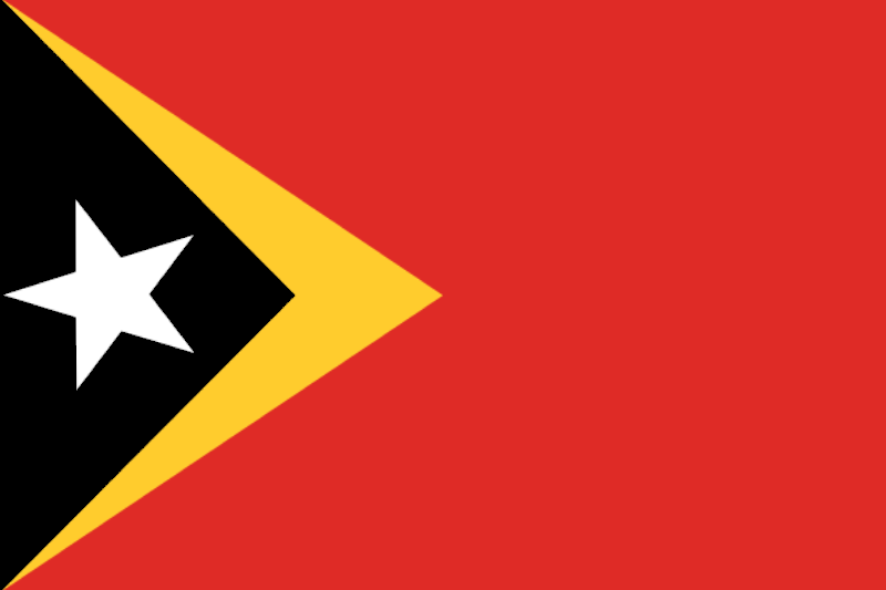 Flag of East Timor, ratio 2:3